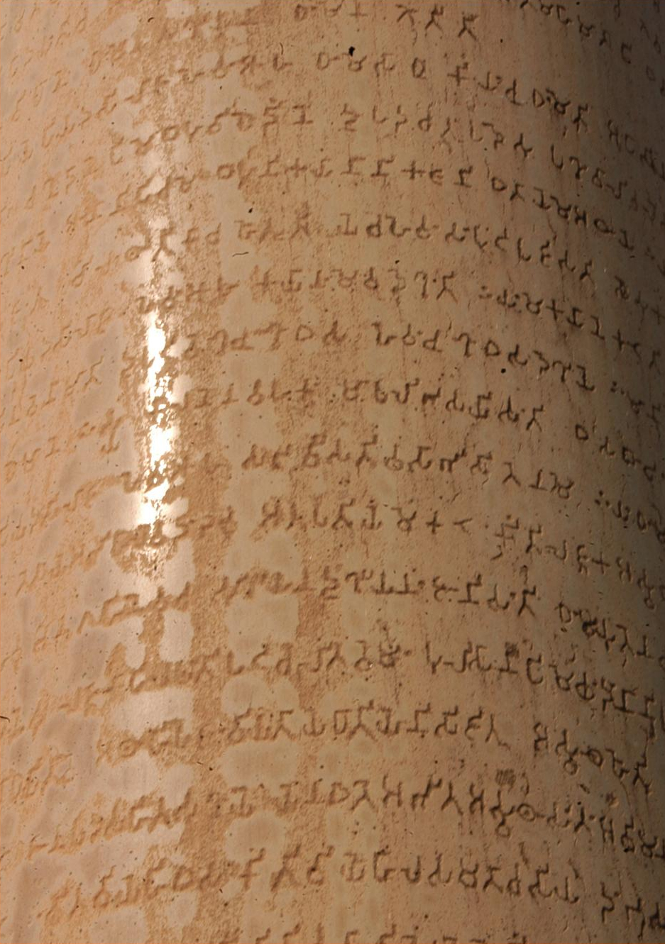 Ashoka Lauriya Areraj inscription